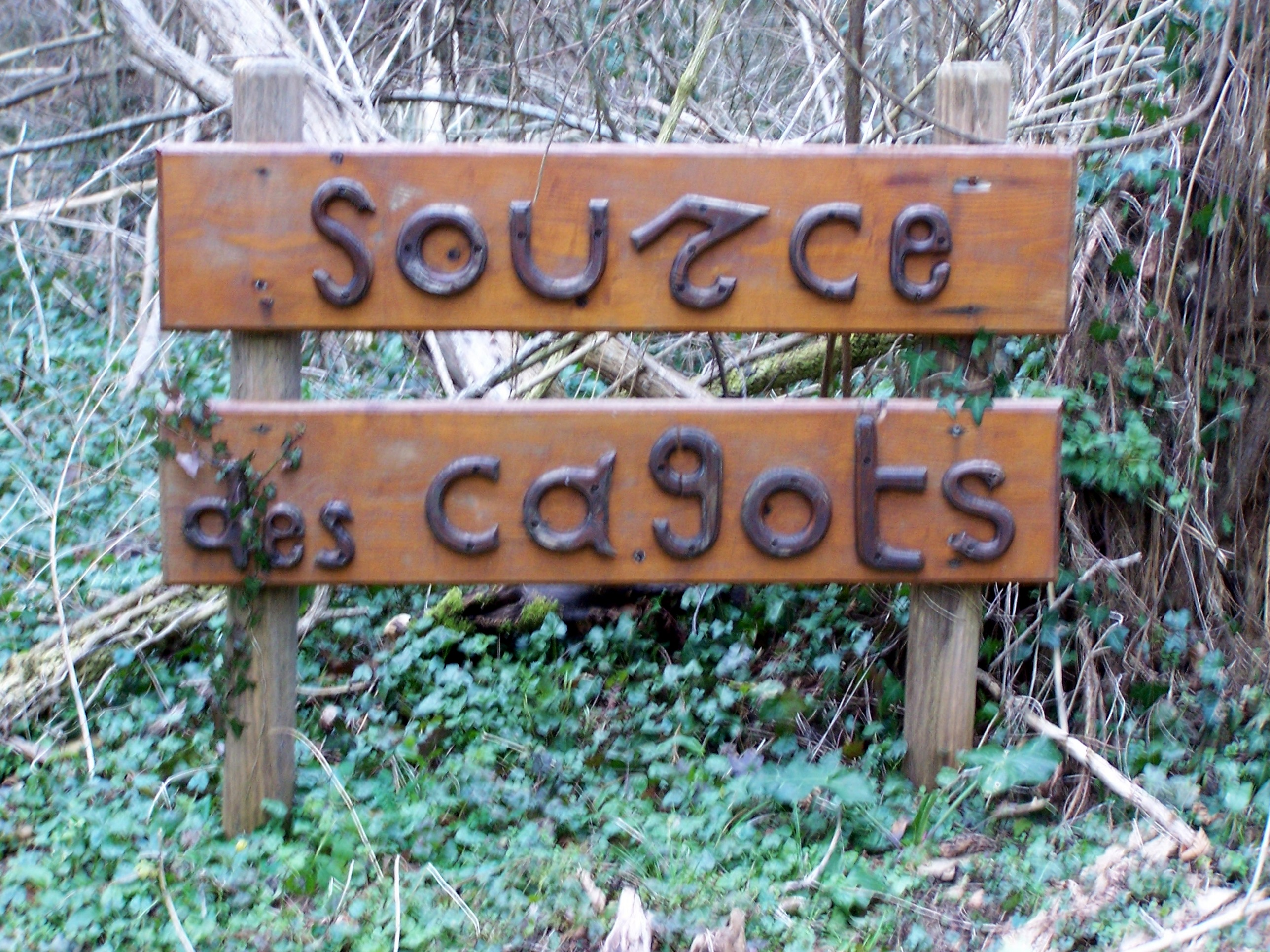 Notice in Saint-Léger-de-Balson (Gironde, France)